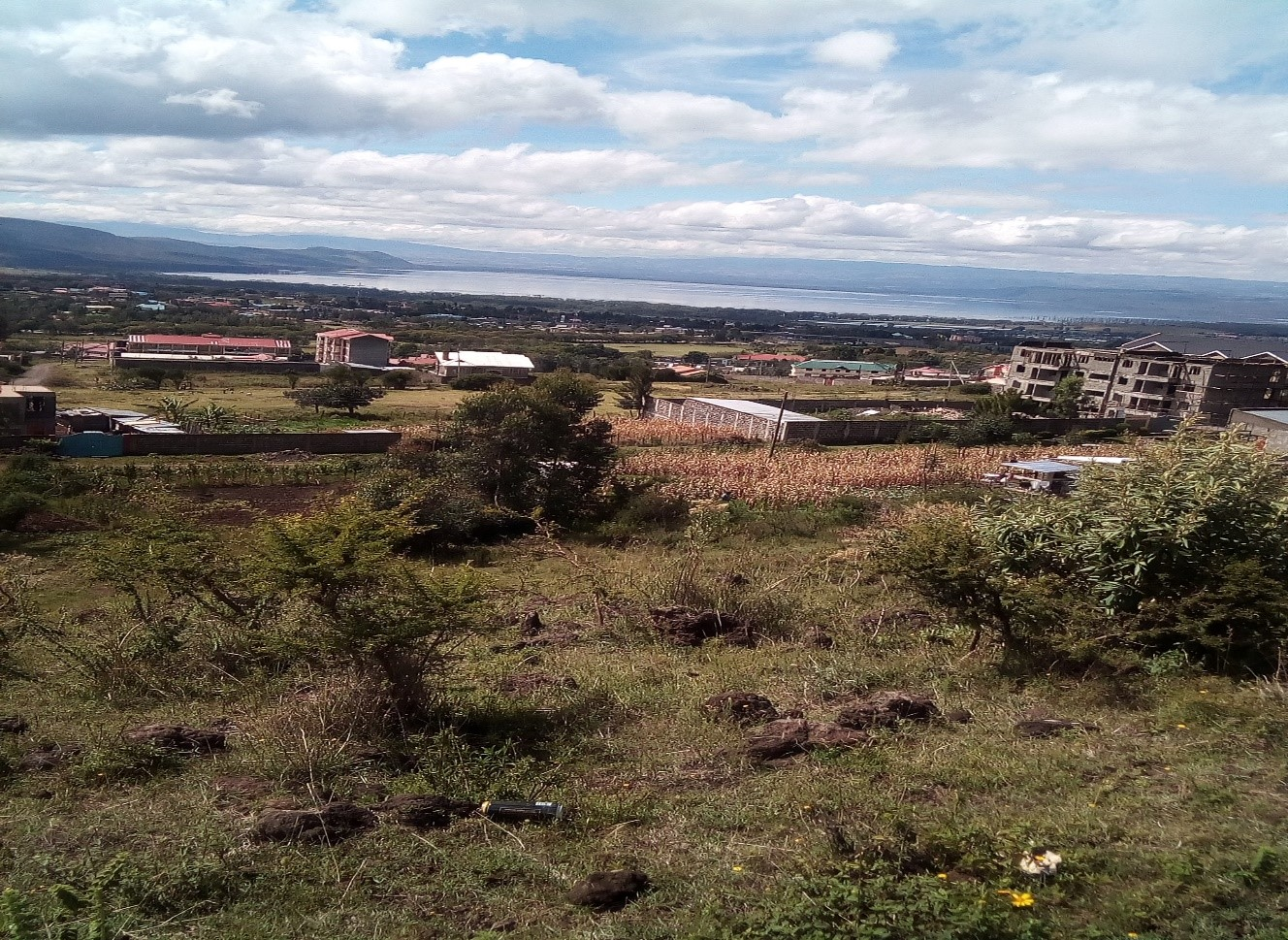 This is an image with the theme "Africa on the Move or Transport" from: Kenya